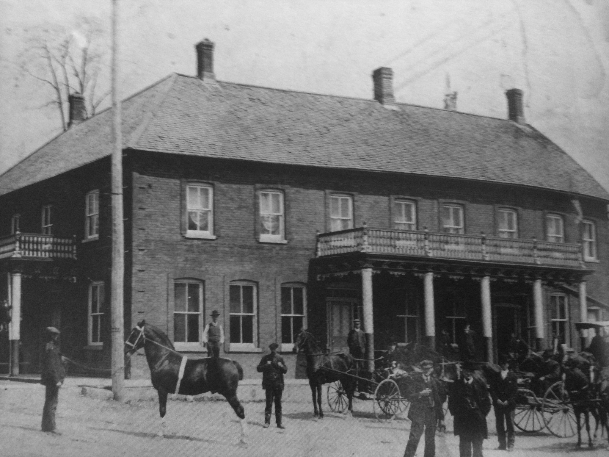 The Munshaw Hotel in the hamlet of Flesherton, Ontario, Canada in 1895. It was built by pioneer Aaron Munshaw Jr. as a tavern and stage coach stop in 1864, and continued to serve as a hotel for a century. Now called Munshaw House, it is currently home to several local businesses.